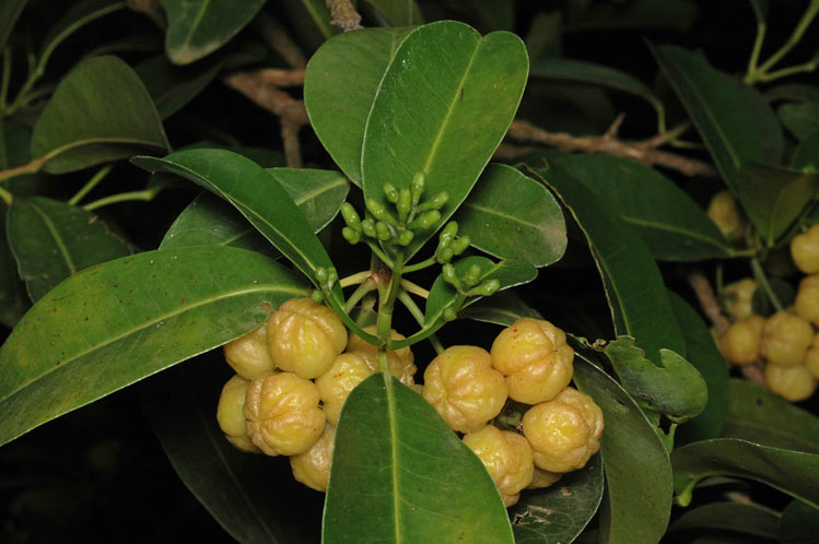 Fruit of Acronychia imperforata in the Australian National Botanic Gardens